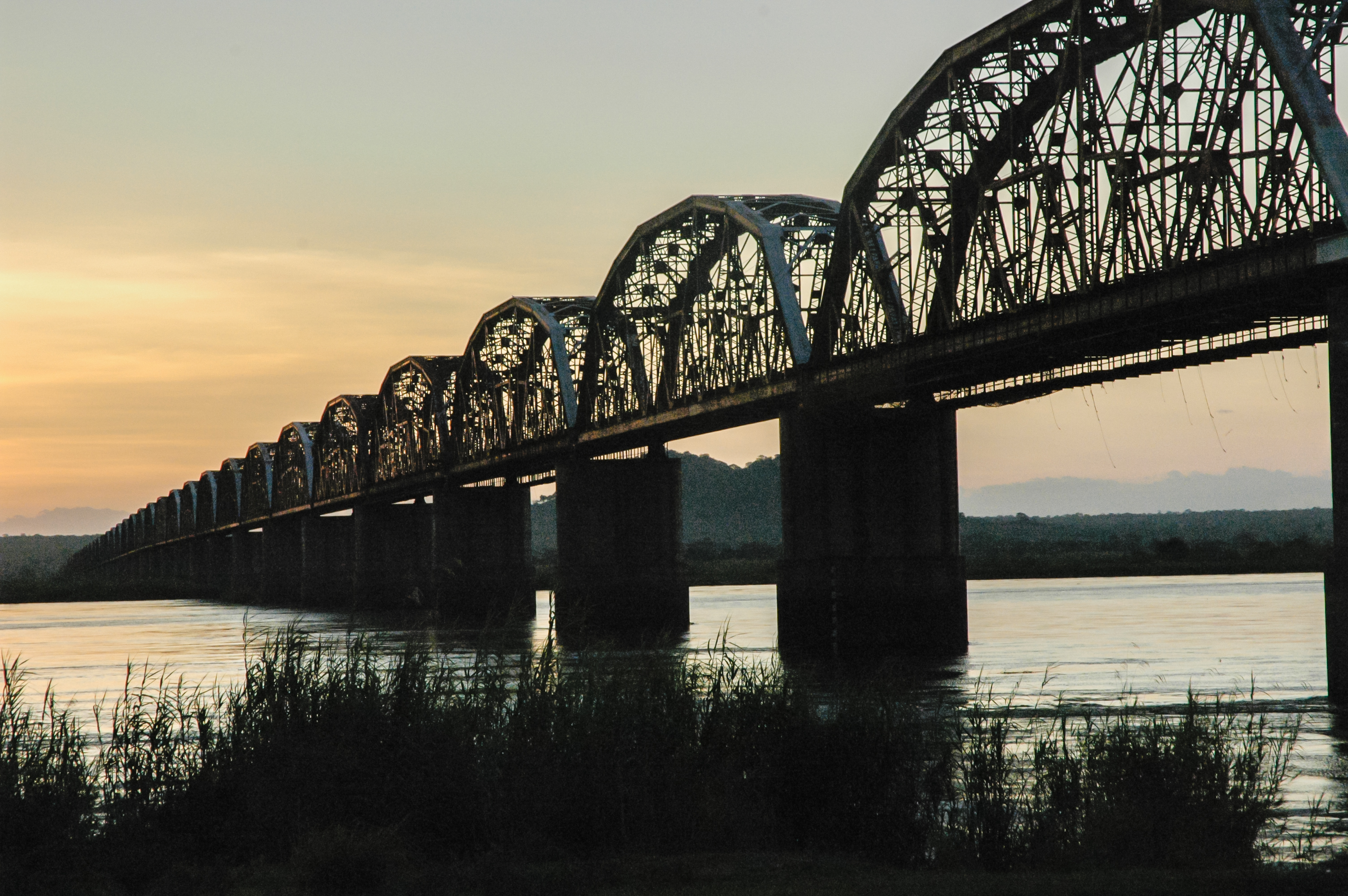 The Dona Ana bridge spanning the Zambezi river linking Mutarara and Vila de Sena.